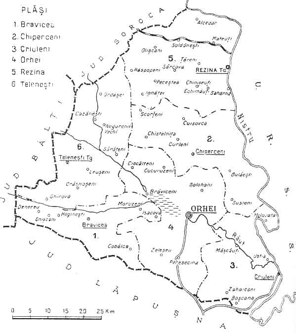 Map of Orhei interwar county, Kingdom of Romania (1938).